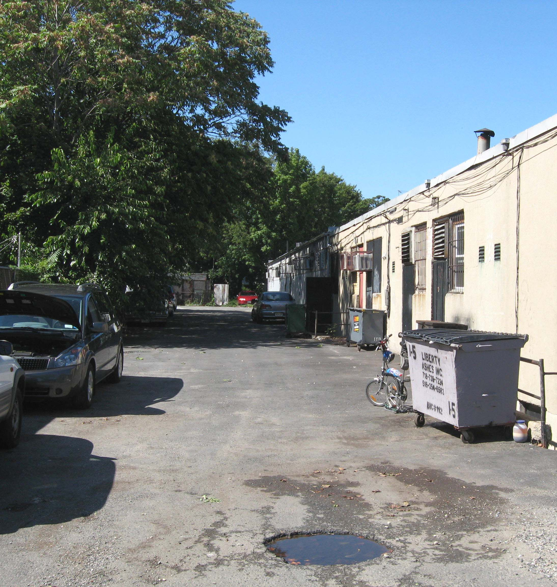 Looking north on a sunny midday, along the former easement of BMT Rockaway trolley line, now use for parking and an alleyway